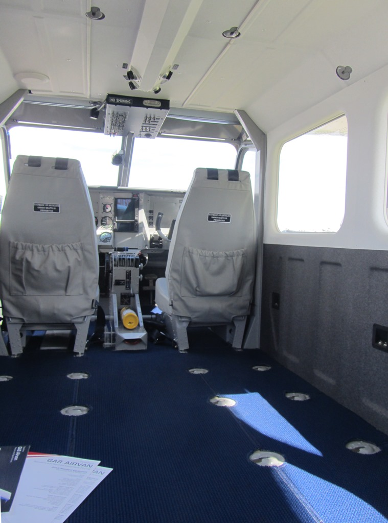 Mahindra Aerospace GA8